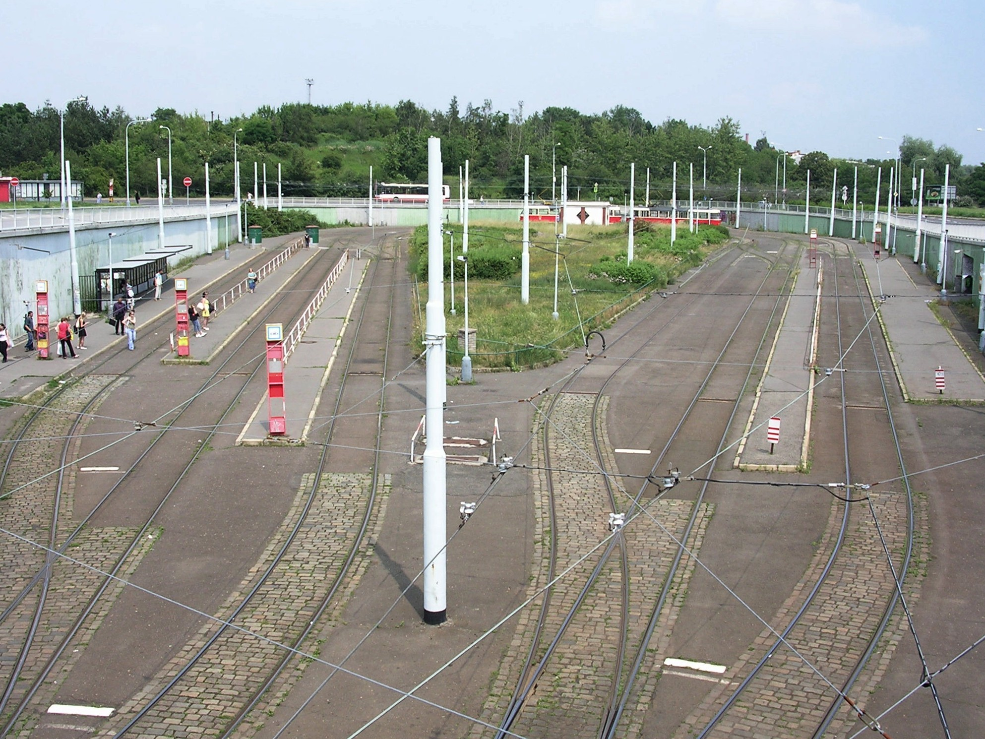 Praha-Hostivař. The Czech Republic.